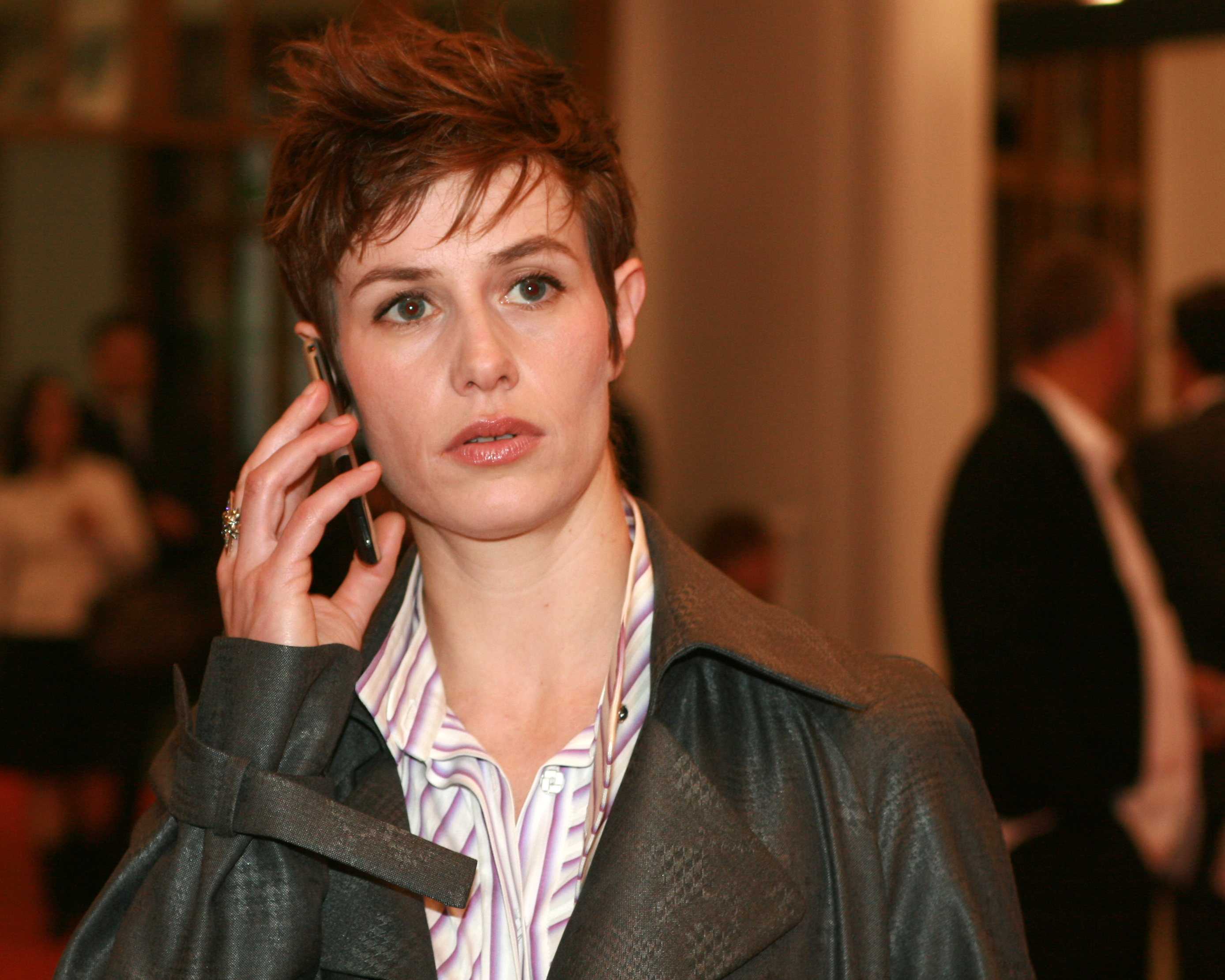 Cécile de France during the premiere of Soeur Sourire in the Bozar in Brussels